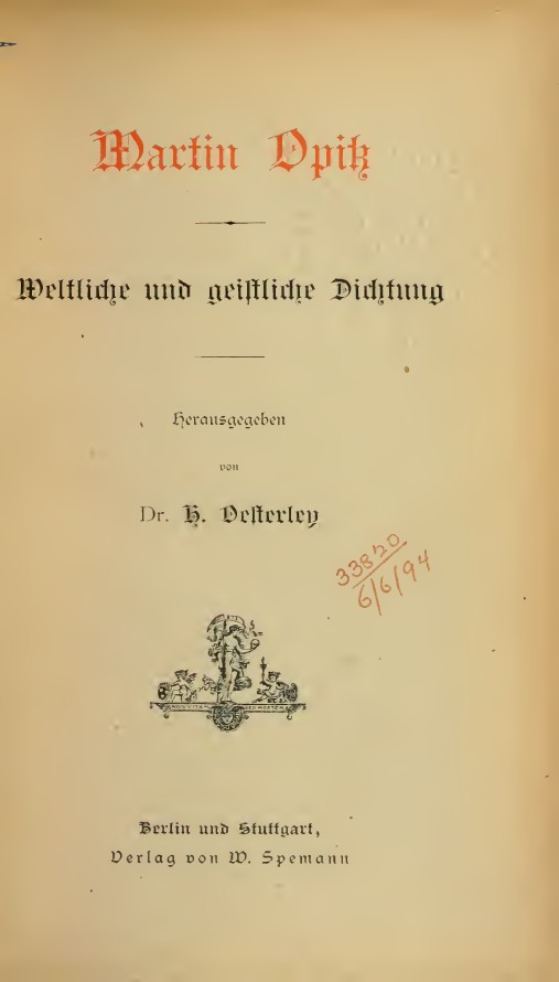 Title page